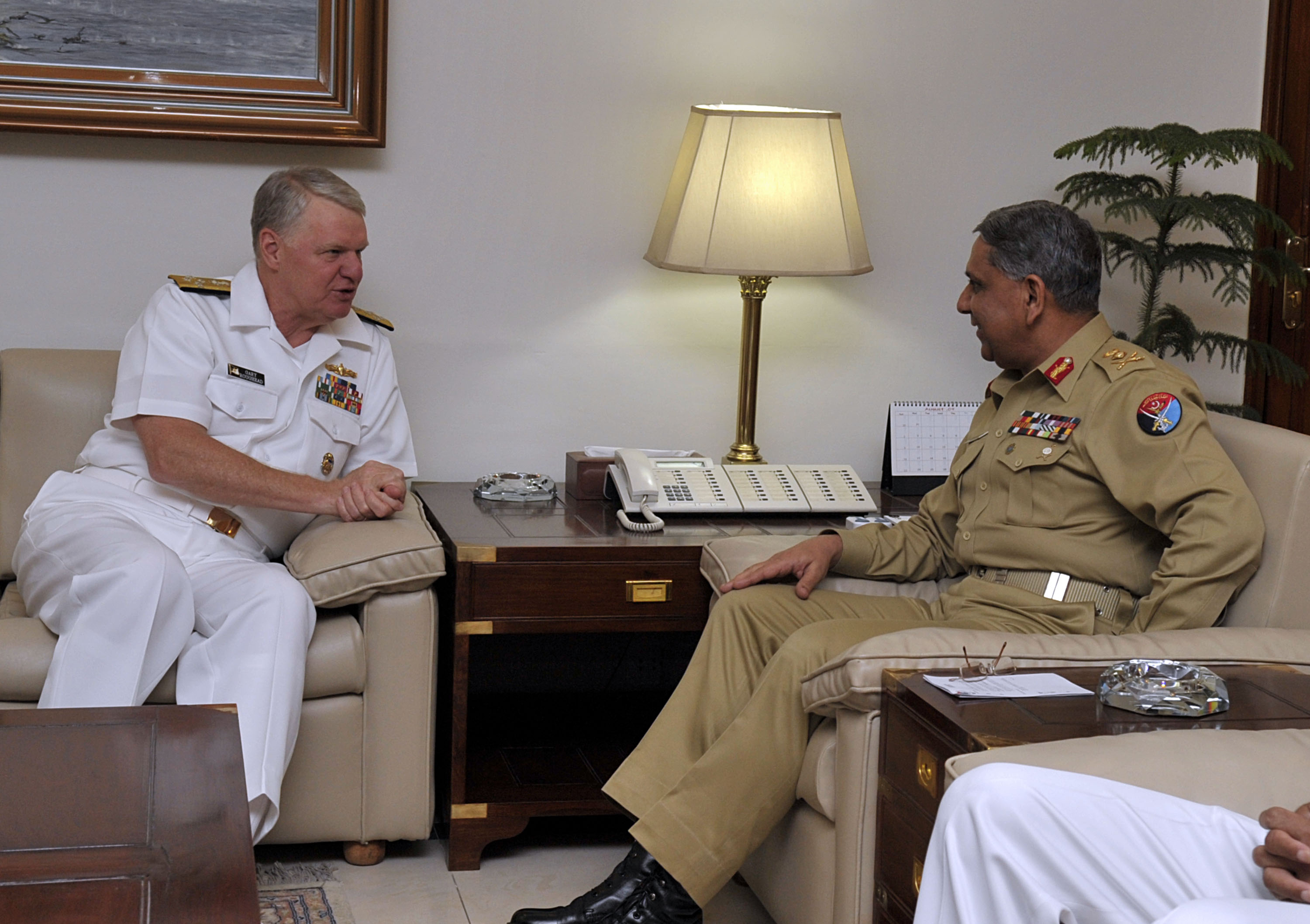 ISLAMABAD (Aug 20, 2009) Chief of Naval Operations (CNO) Adm. Gary Roughead meets with Pakistan Joint Chief of Staff Committee Gen. Tariq Majid during an office call at the Pakistan Joint Staff Headquarters in Islamabad. Roughead is on an official counterpart visit to Pakistan to strengthen maritime partnerships. (U.S. Navy photo by Mass Communication Specialist 1st Class Tiffini Jones Vanderwyst/Released)